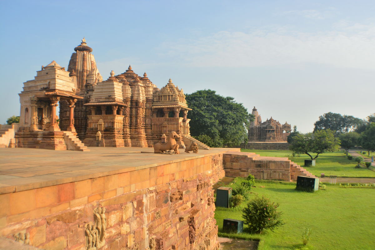 Temples among the Western group of Khajuraho.